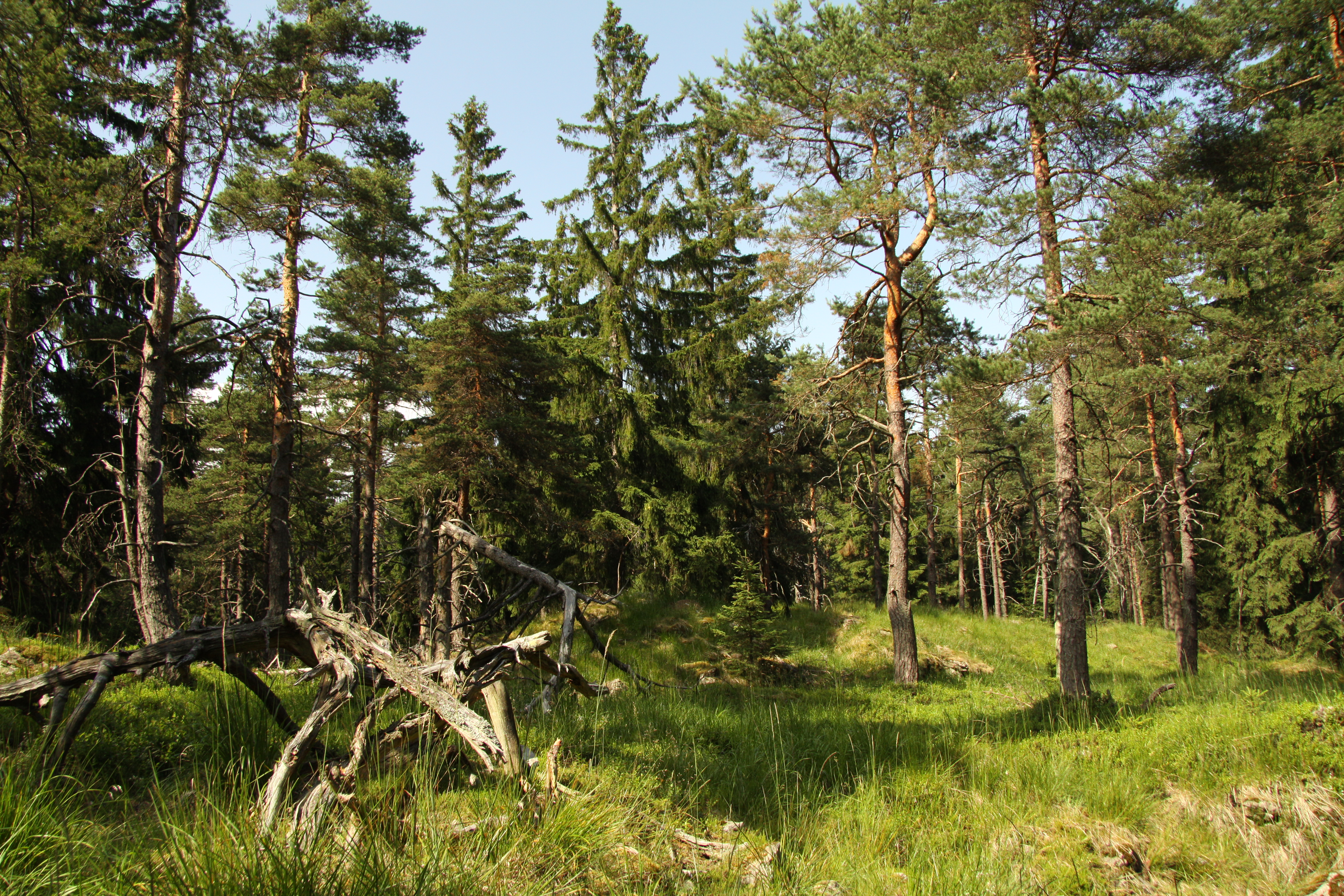 Nature reserve Vlček near Prameny village in Cheb District, Czech Republic - Google Maps - Google Earth